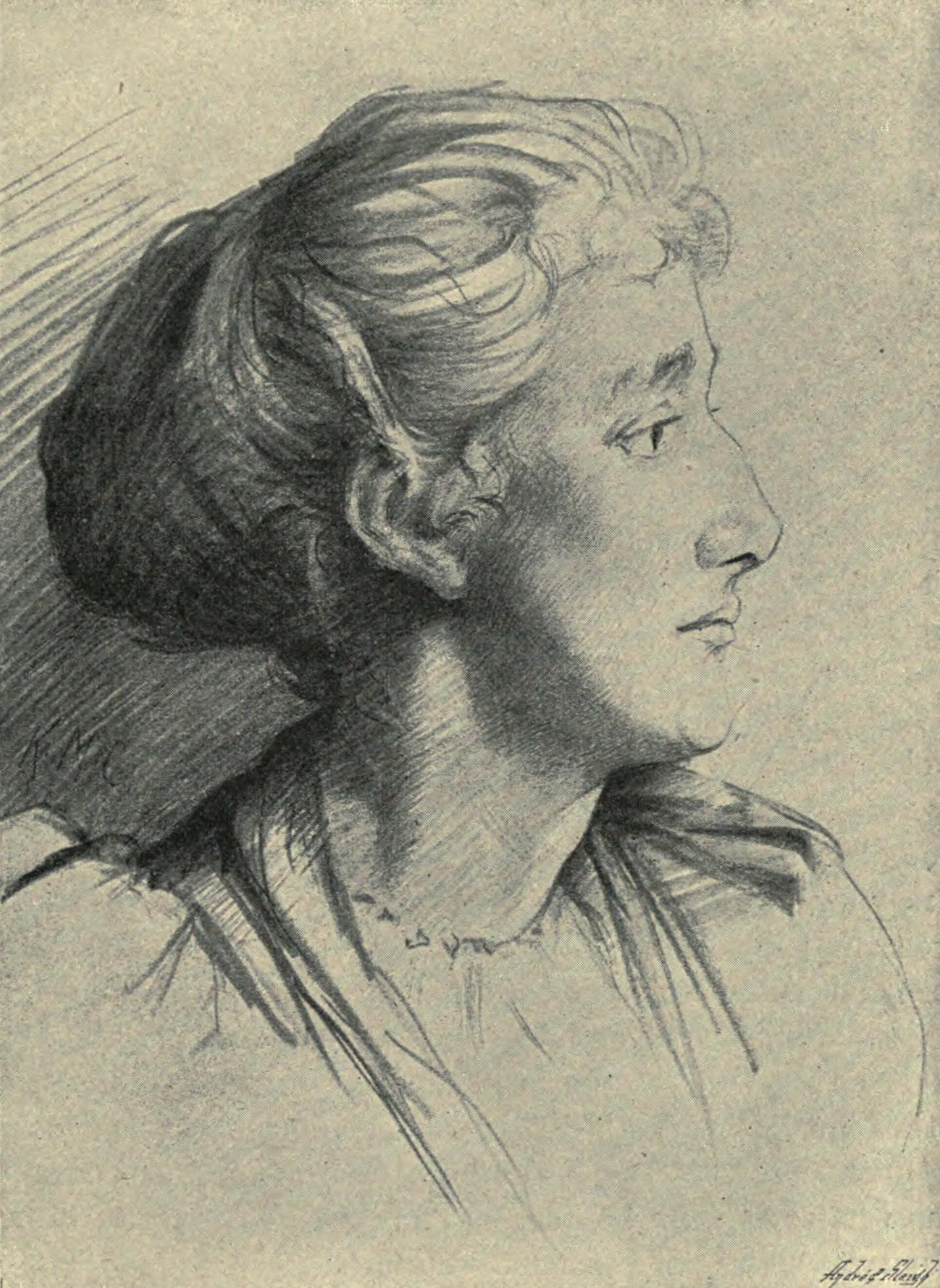 Portrait of Alice Stopford Green